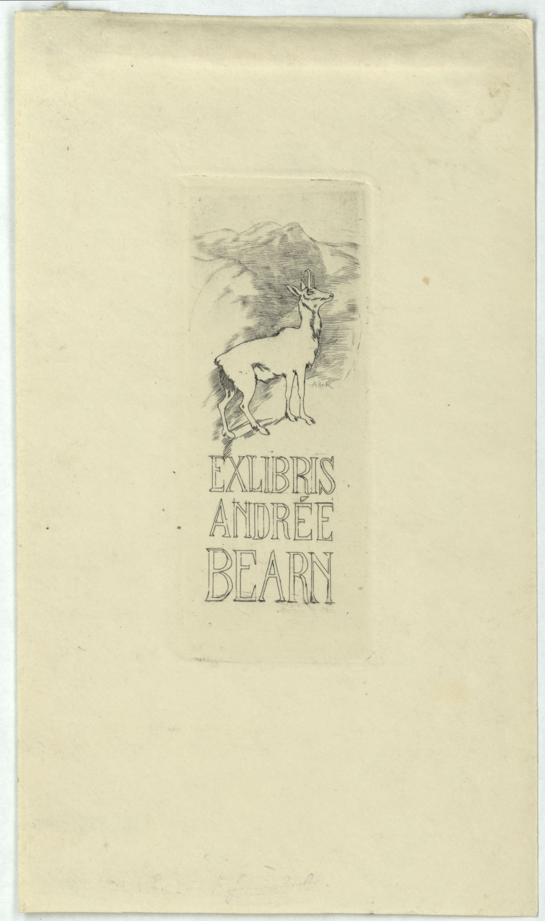 Ex-Libris Andrée Béarn